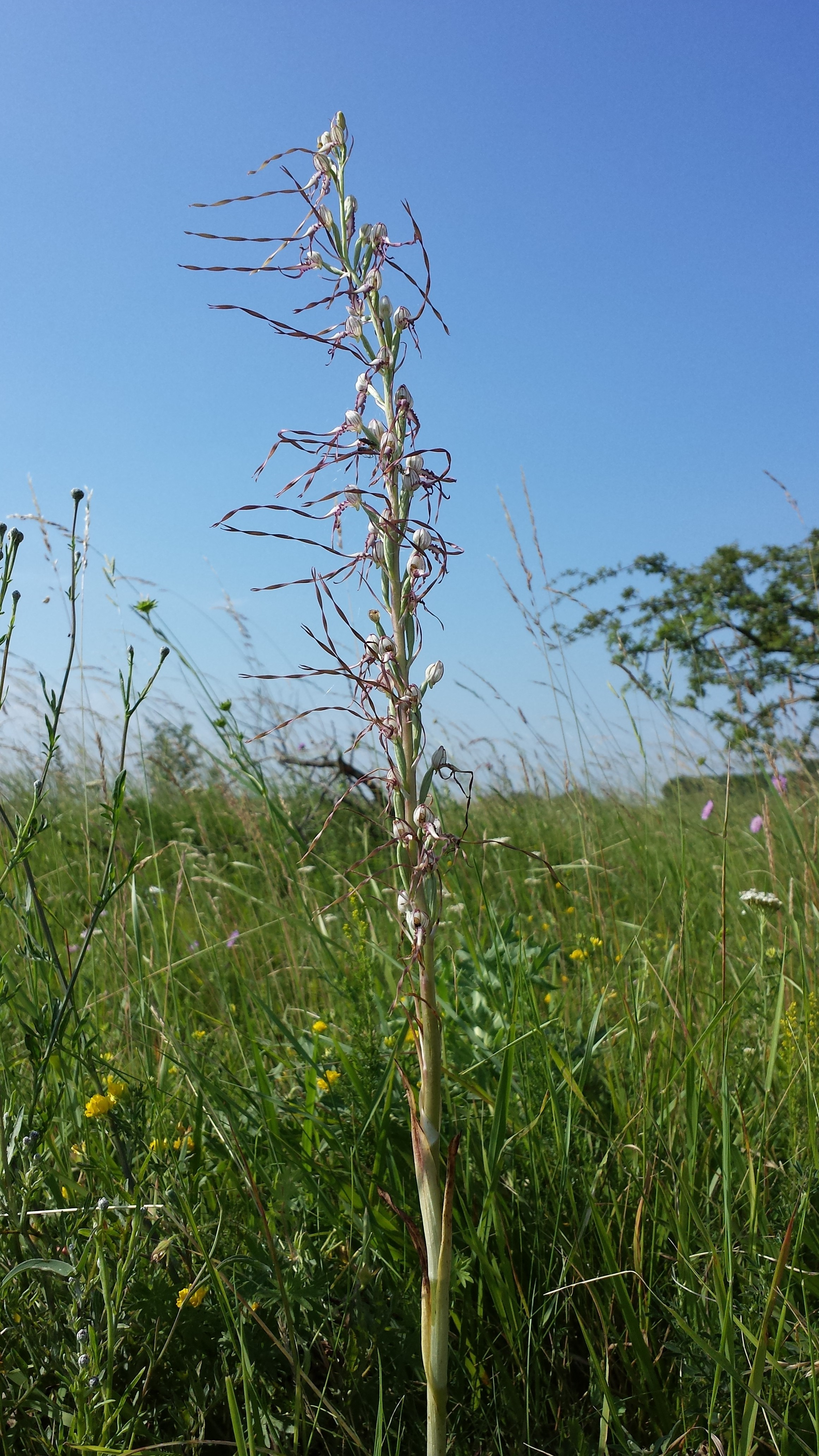 Taxon: Himantoglossum adriaticum (sensu Fischer et al. EfÖLS 2008) Location: Alte Schanzen, object X, Floridsdorf, Vienna - ca. 225 m a.s.l. Habitat: dry grassland